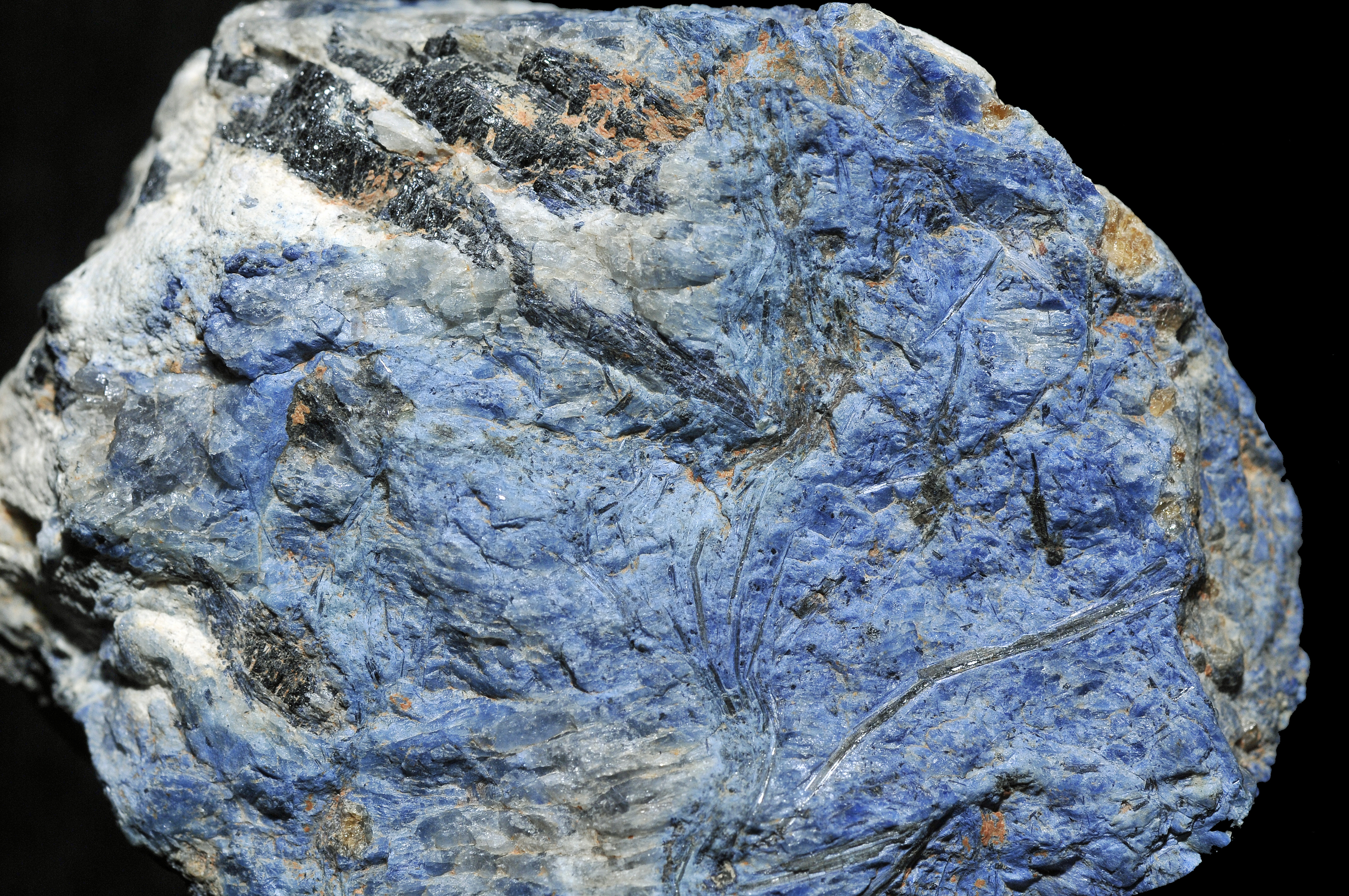 crystals of dumortierite : Beraketa Commune, Bekily District, Androy Region, Tuléar Province (Toliara), Madagascar